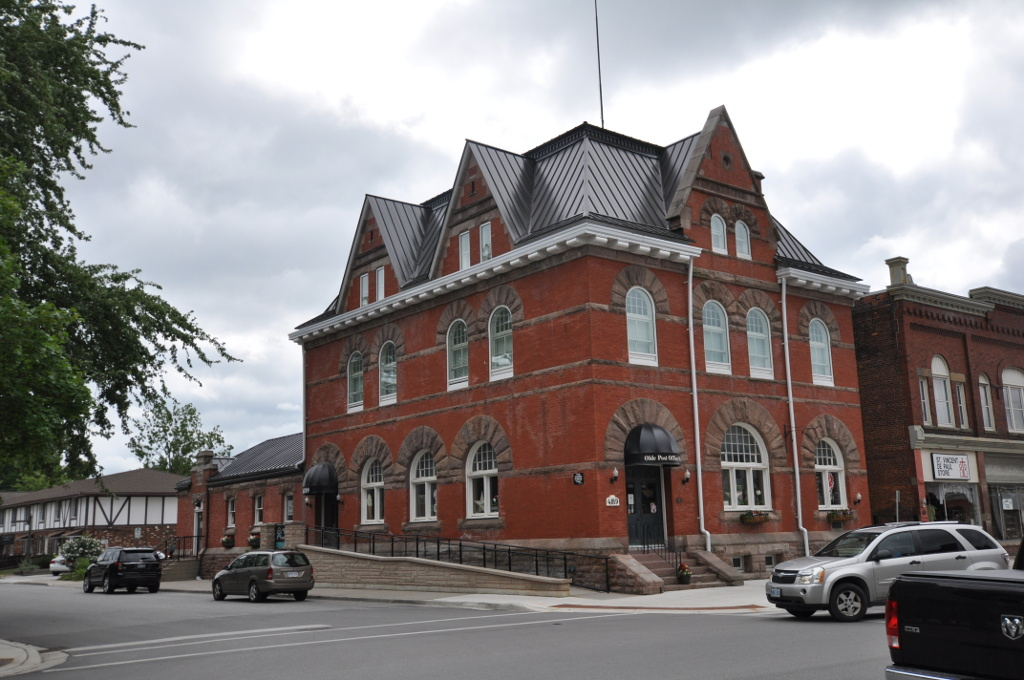 Old Post Office, Petrolia, Ontario.